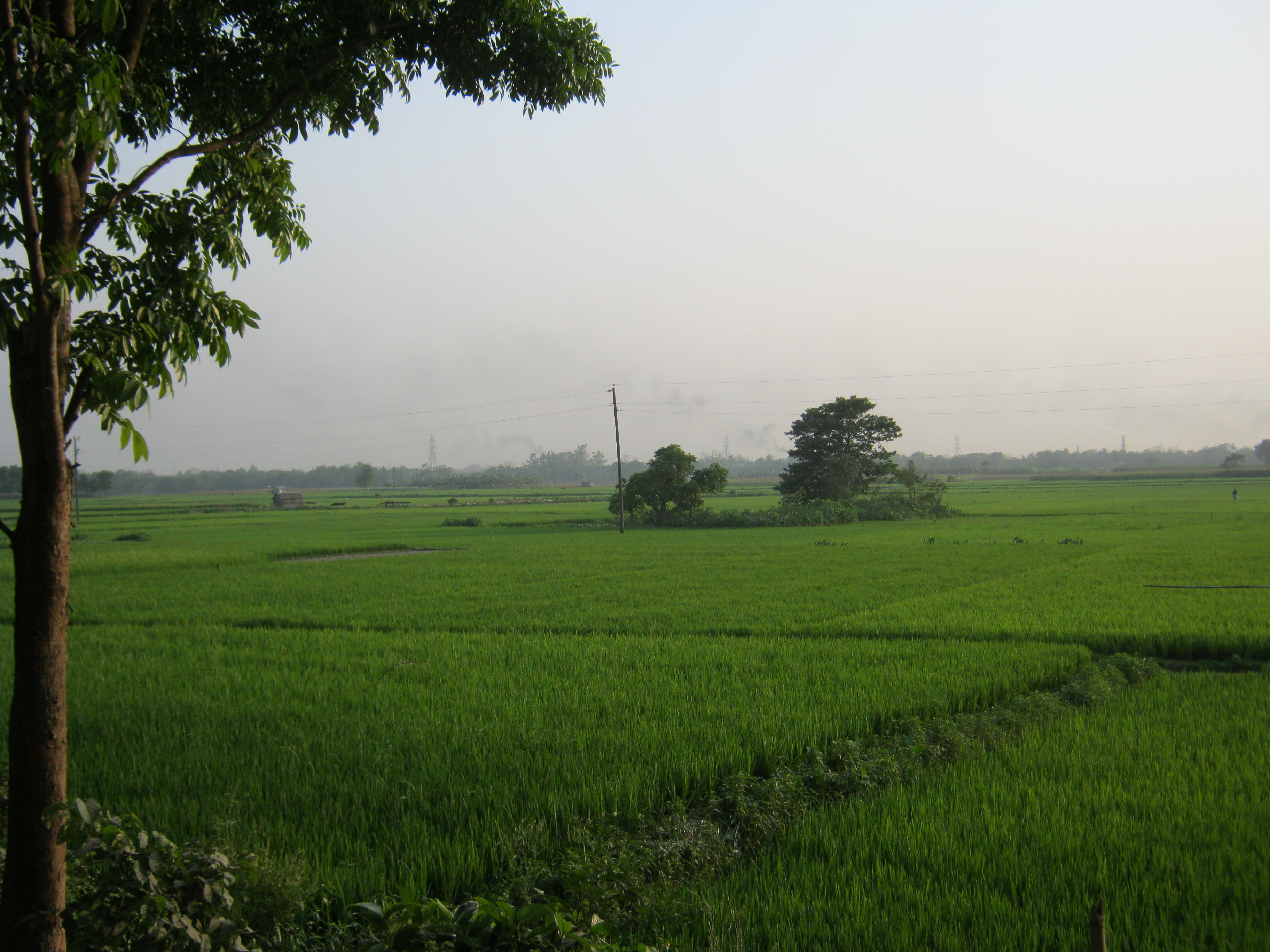 I click this photo from Dhamrai, Dhaka.